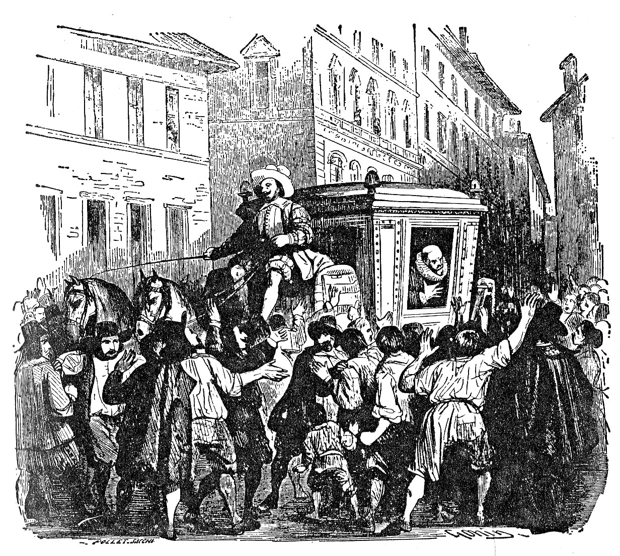 Picture from "I promessi sposi" of Ferrer from chapter 13